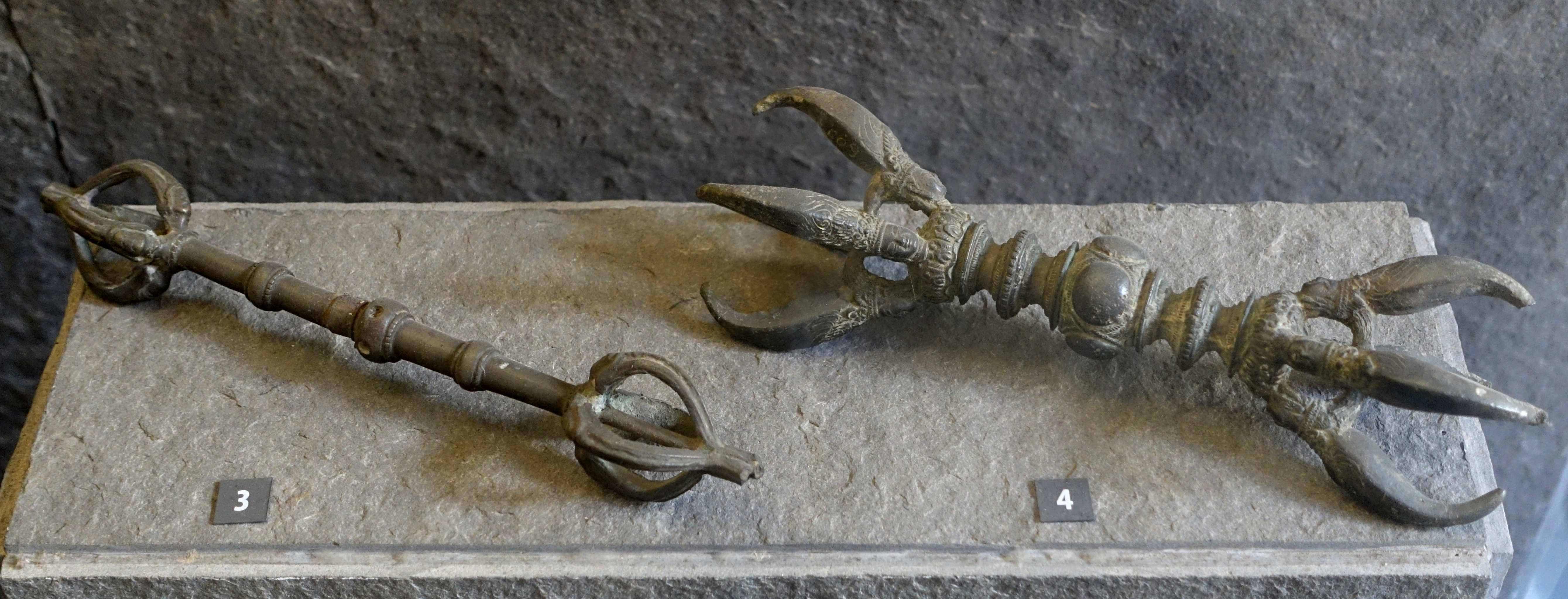 Exhibit in the Museum of Vietnamese History, Ho Chi Minh City, Vietnam. This work is old enough so that it is in the public domain. BTLS. 610 - 609